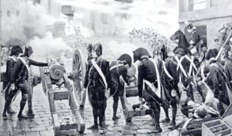 Gribeauval guns of Bonaparte in the Paris insurrection, 5 october 1795